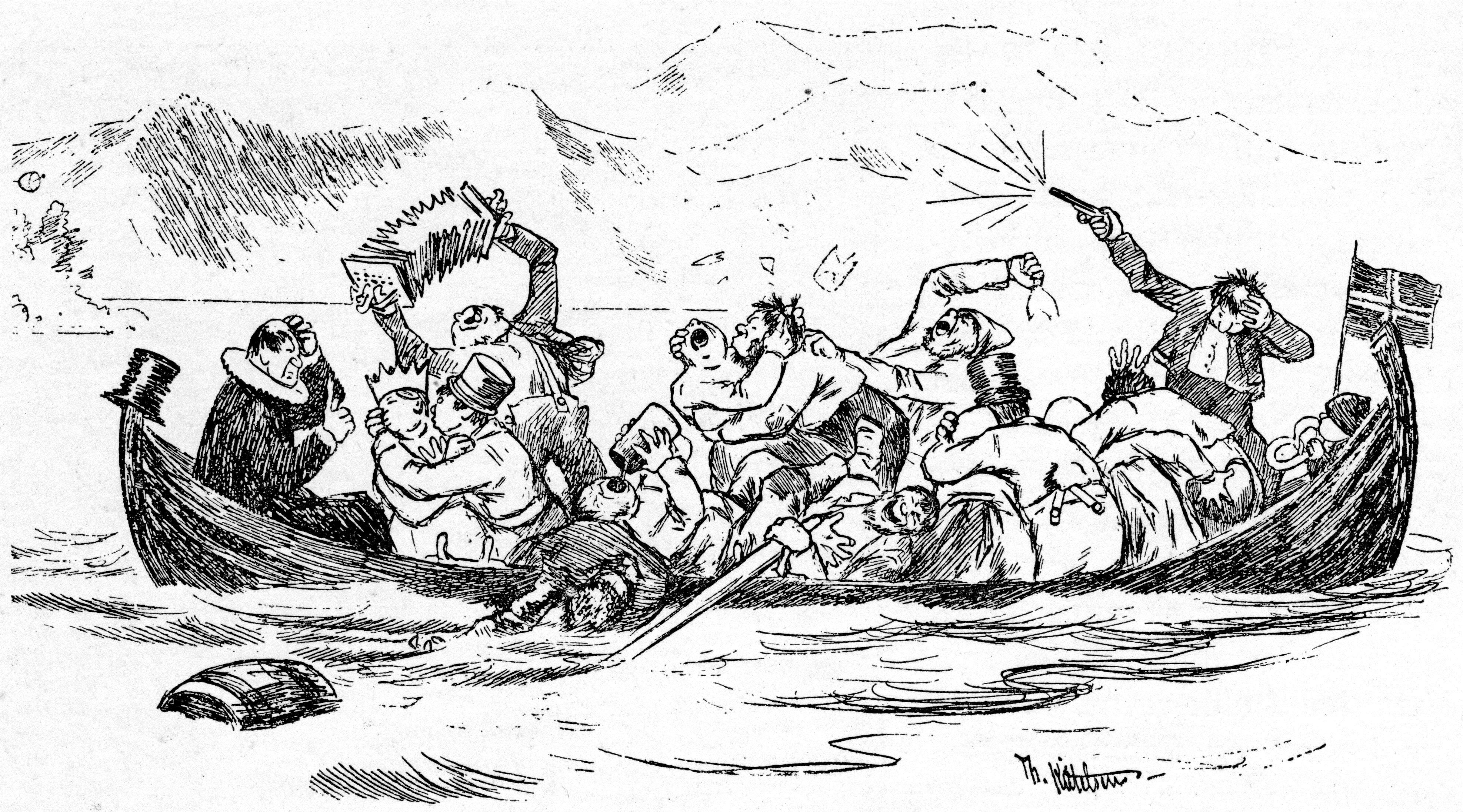 Parody of Bridal Procession on the Hardangerfjord – Brudeferd i Hardanger by Tidemand and Gude